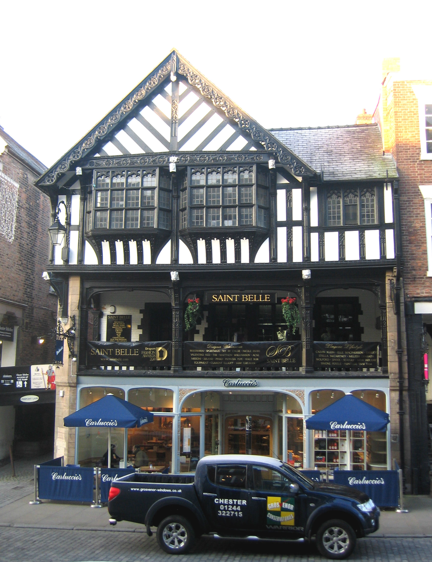 Photograph of 38 Bridge Street, Chester